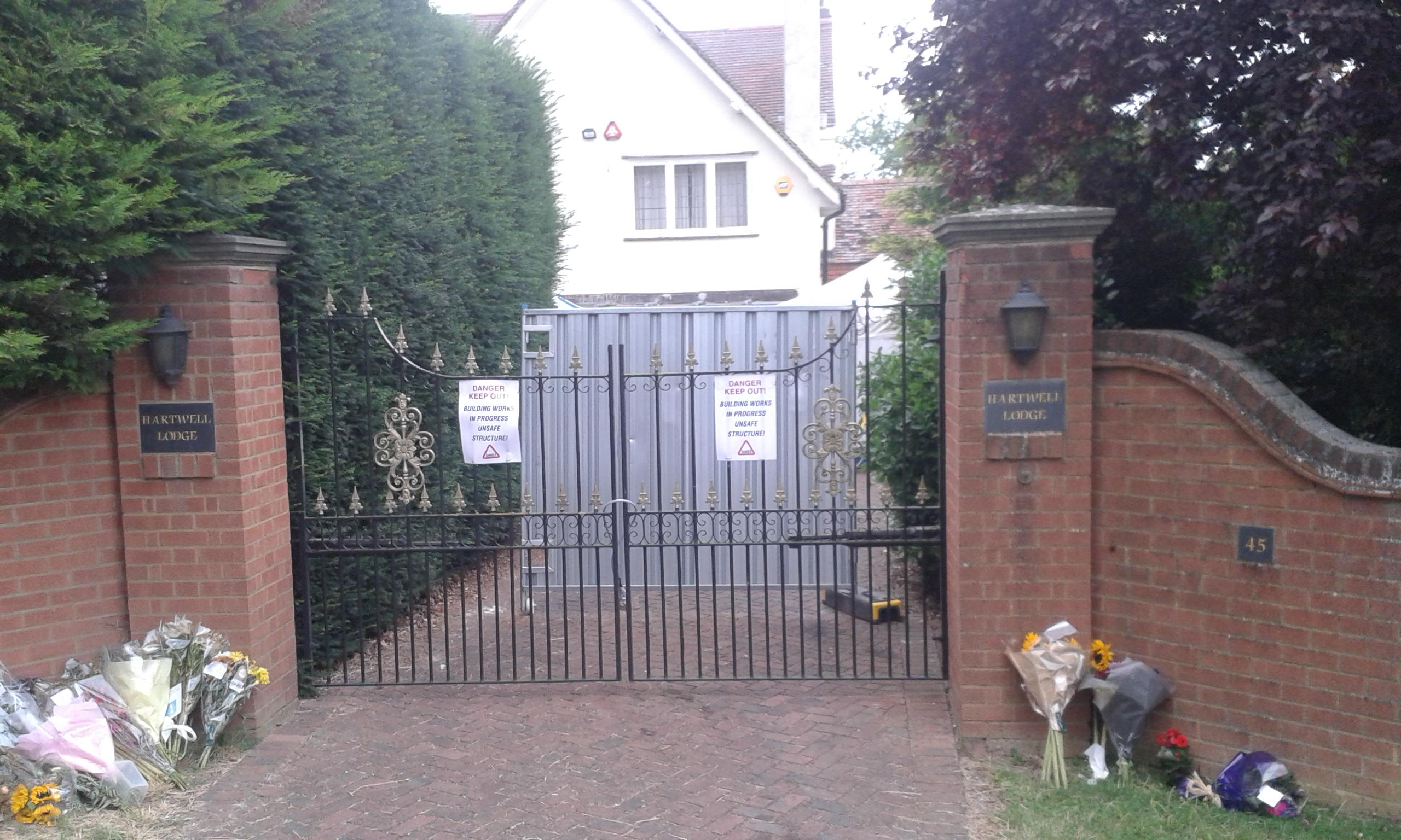 House where author Helen Bailey lived and was found murdered.